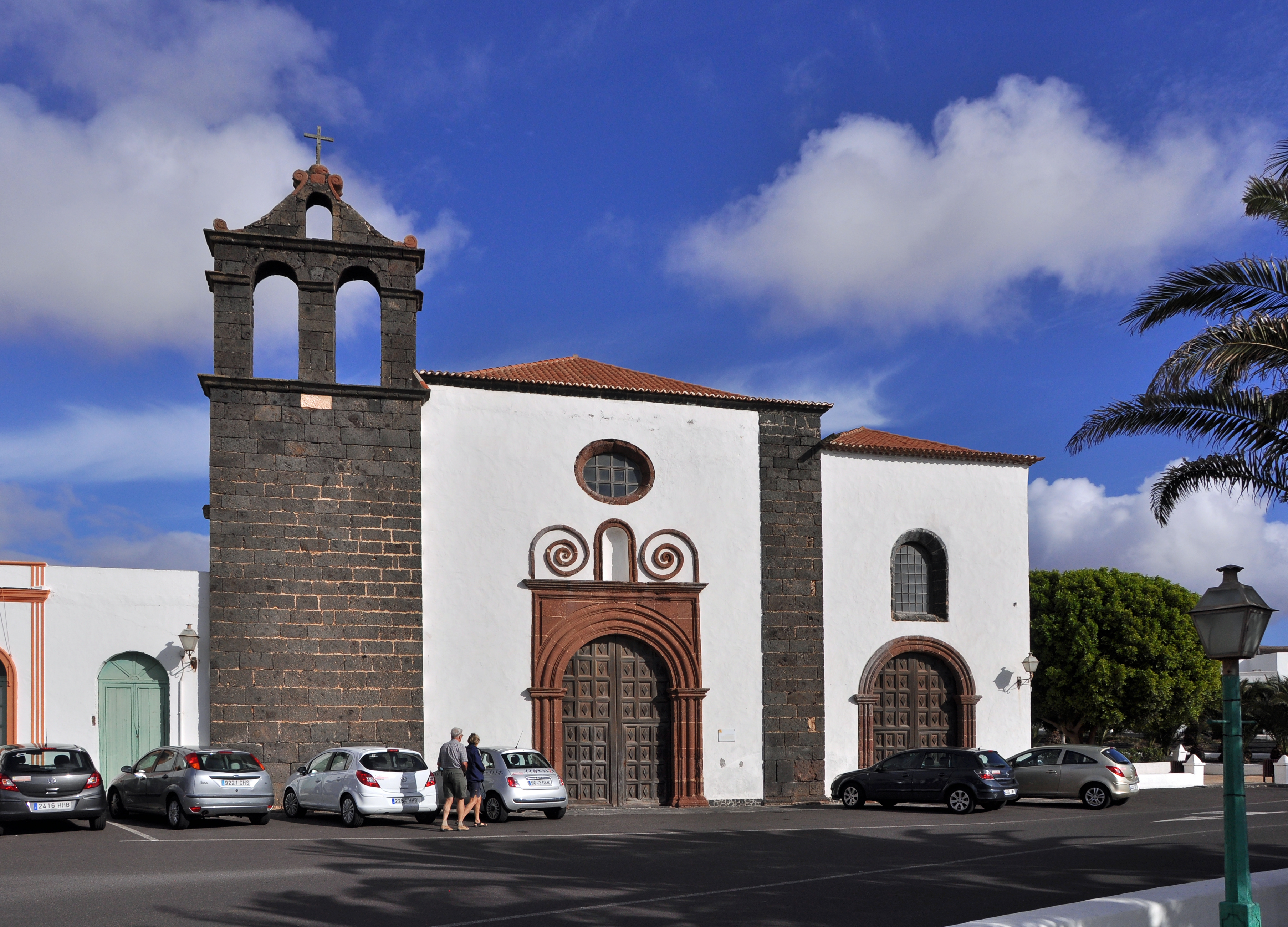 Teguise (Lanzarote, Canary Islands): Plaza San Francisco, St Francis convent